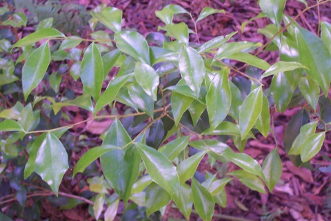 Scolopia braunii at Tamban State Forest, near Kempsey, Australia